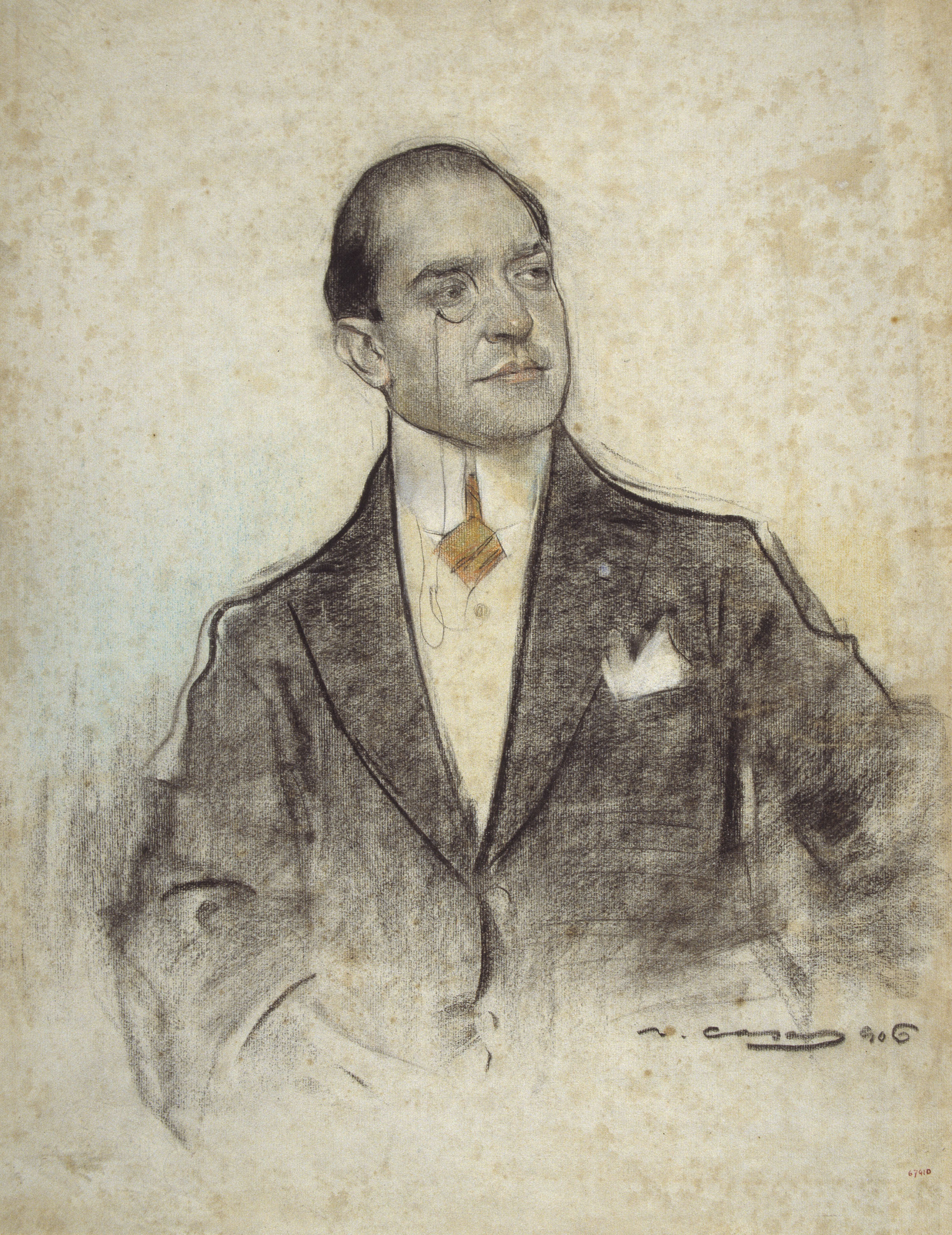 Portrait by Ramon Casas conserved at MNAC in Barcelona. Imagen 172